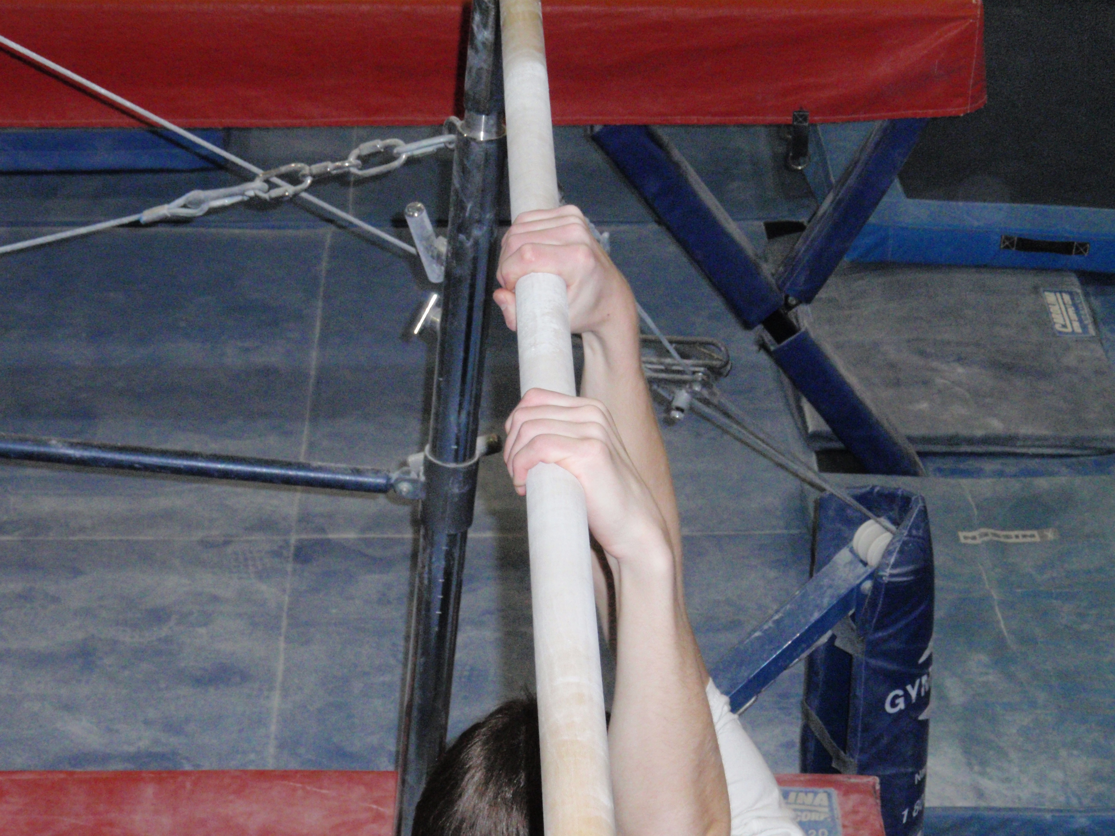 Gymnast using overhand grip